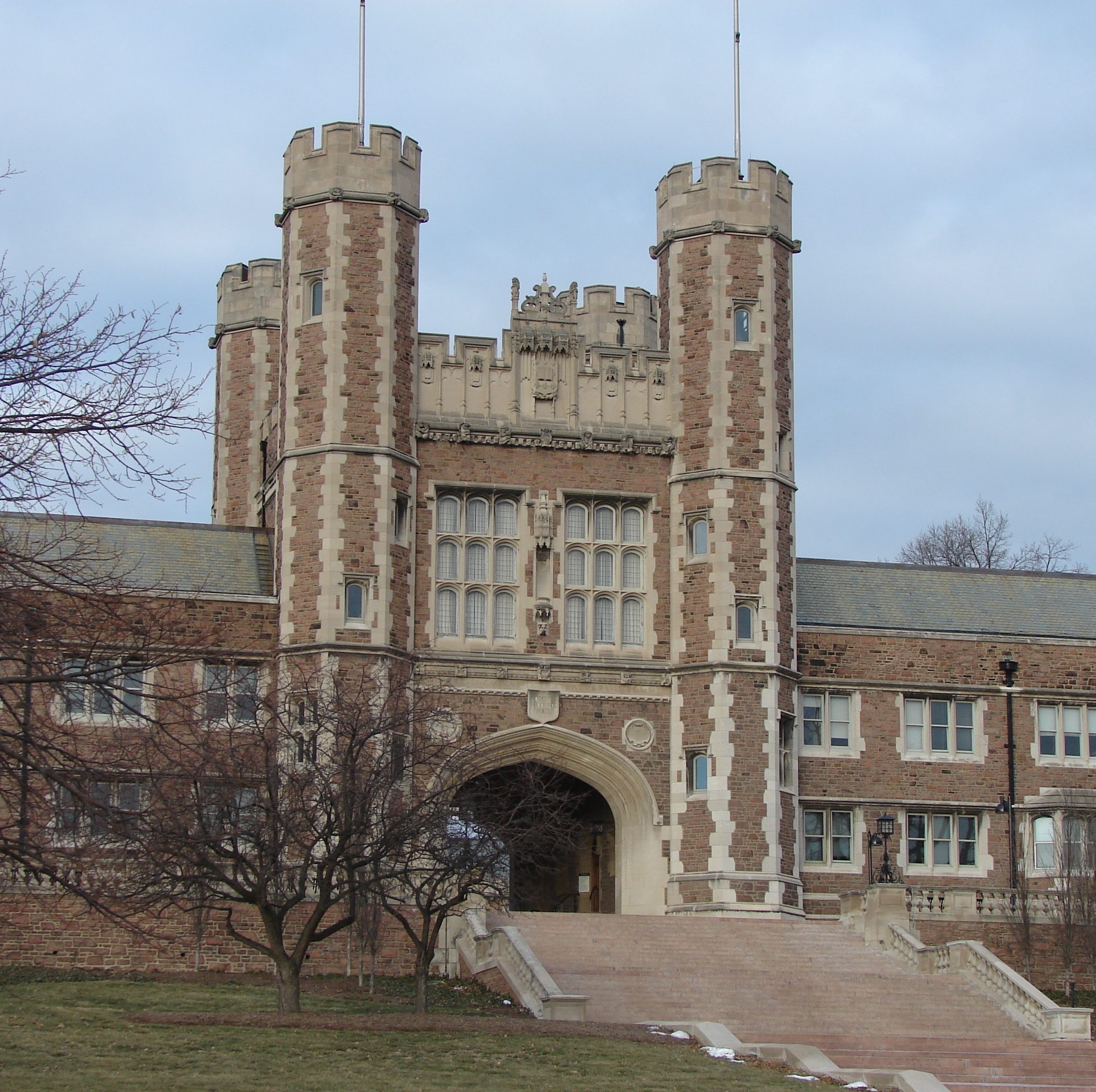 Brookings Hall right angle